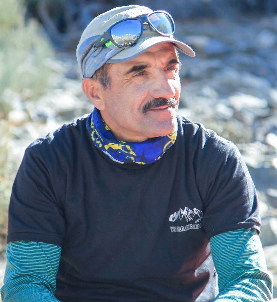 [Shaheen Baig] in 2018